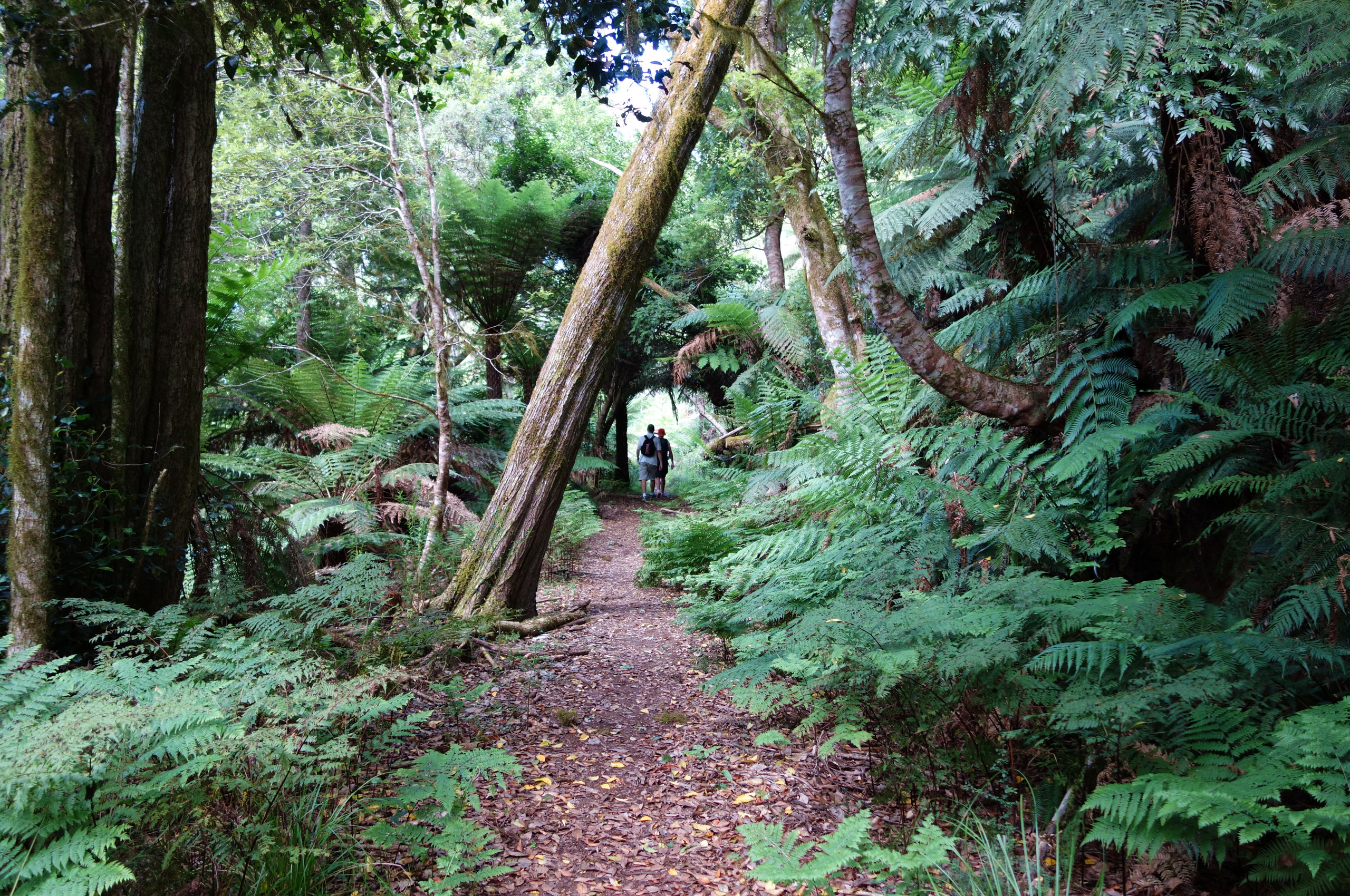 The Rainforest Track at Mount Gulaga, which leads to the summit of the mountain.